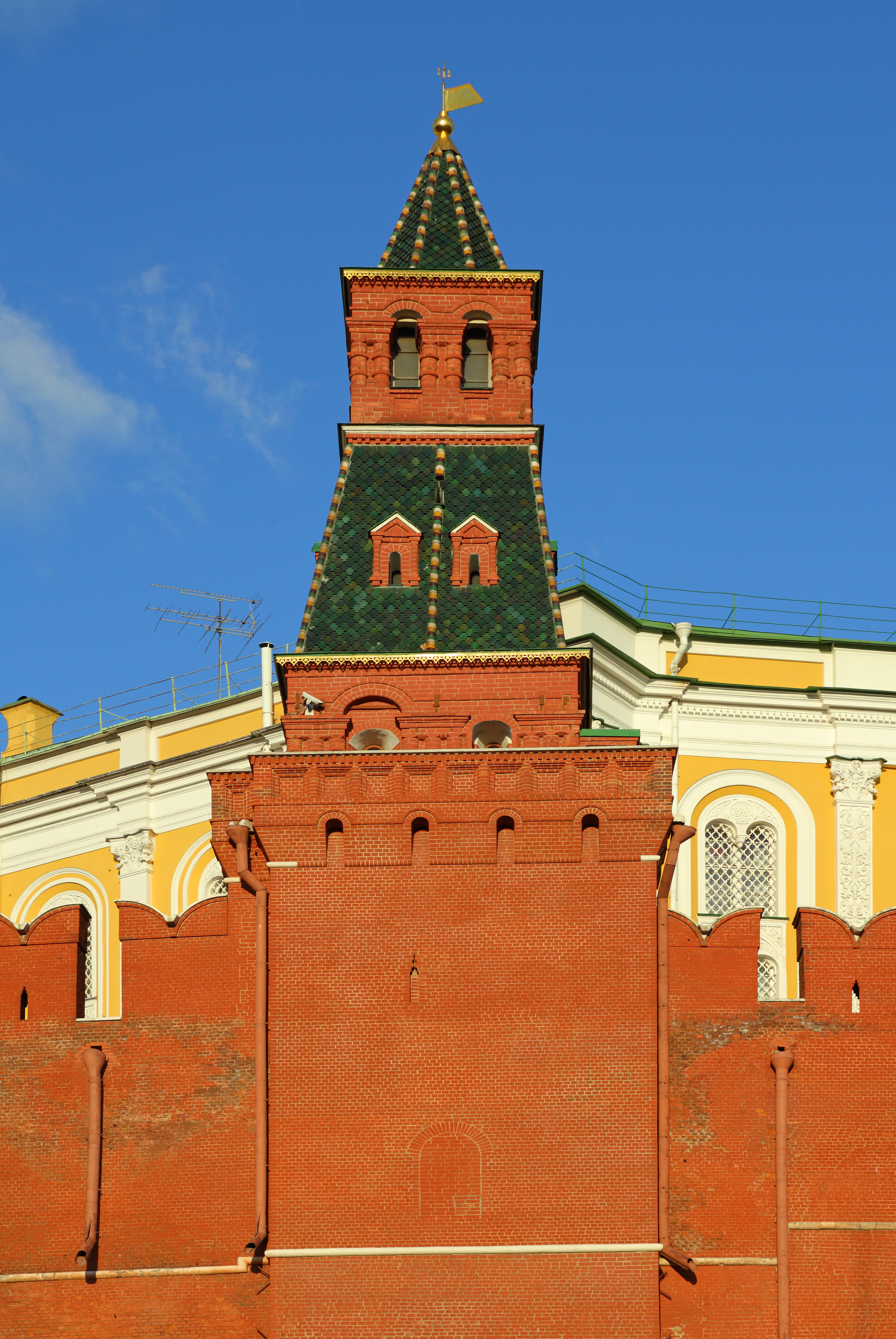 Moscow, Russia. Oruzheynaya (Armoury) Tower of the Moscow Kremlin.